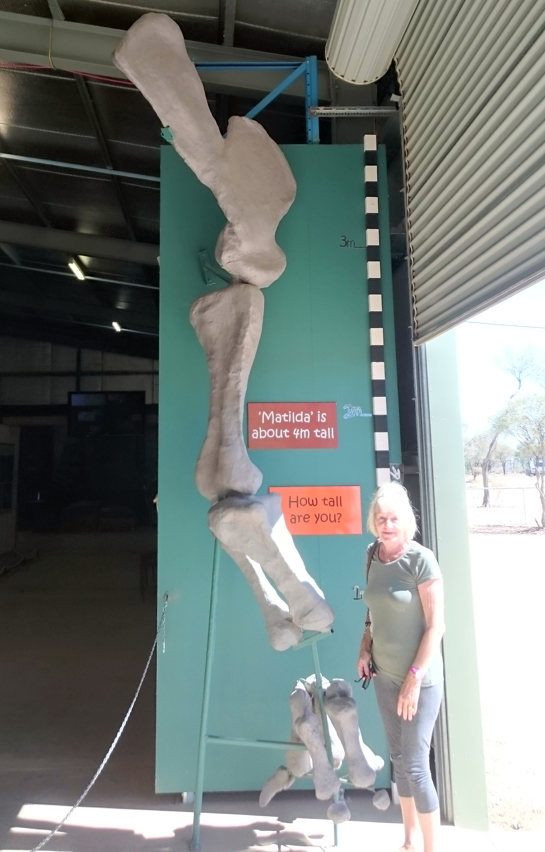 Diamantinasaurus leg bone